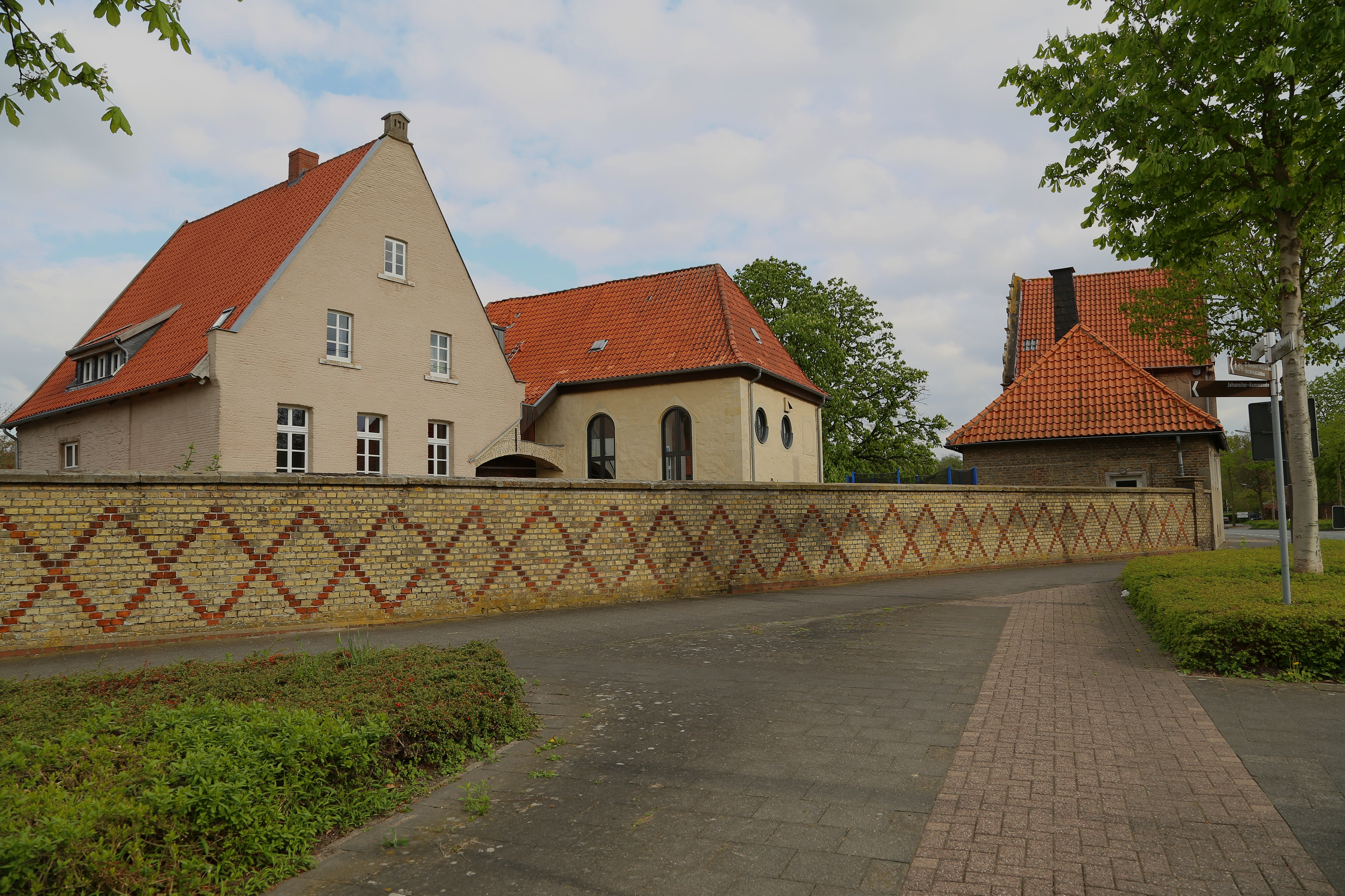 Former Order of Knights of St. John of Jerusalem commandry in Steinfurt-Burgsteinfurt, Kreis Steinfurt, North Rhine-Westphalia, Germany. The historic buildings were converted into houses.